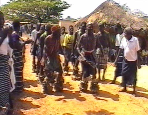 Django